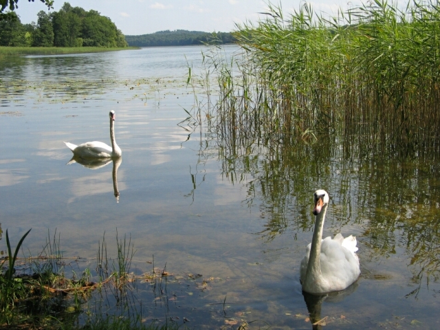 Lake Krzywe in Poland